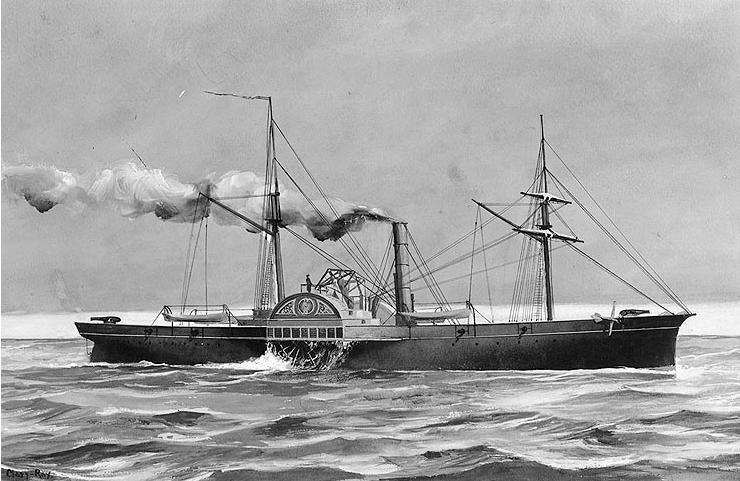 CSS "Patrick Henry". Wash drawing by Clary Ray, circa 1898.